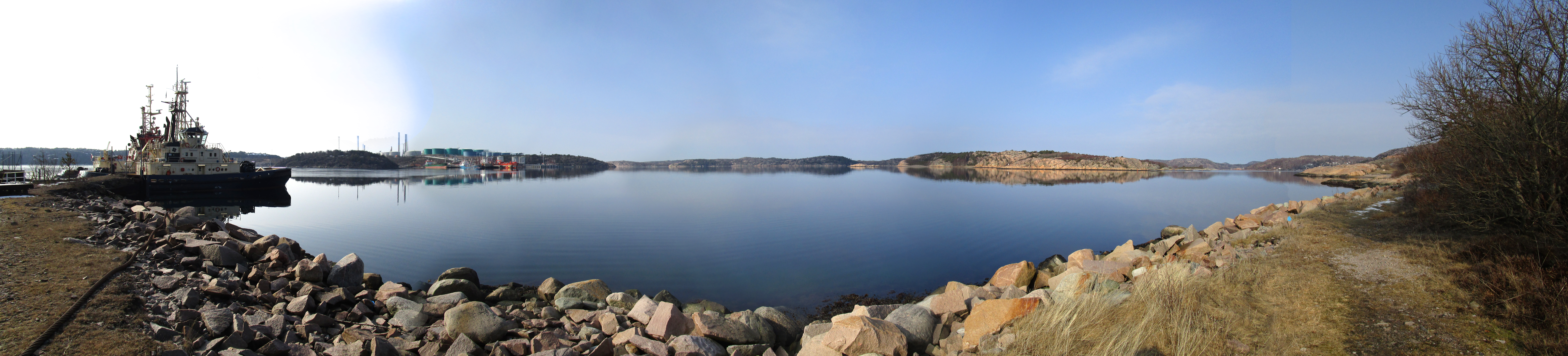 Brofjorden viewed from Lahälla, Lysekil Municipality, Sweden on 11 March 2016.